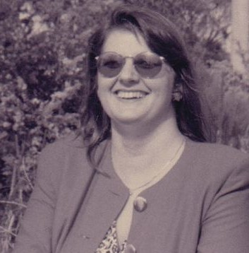 Hilda Bastian (Convenor of Cochrane Consumer Network), at the meeting to announce the Australasian Cochrane Centre, Canberra, Australia. Standing with Iain Chalmers (Director of UK Cochrane Centre) on her right (visible in uncropped version of this photo).